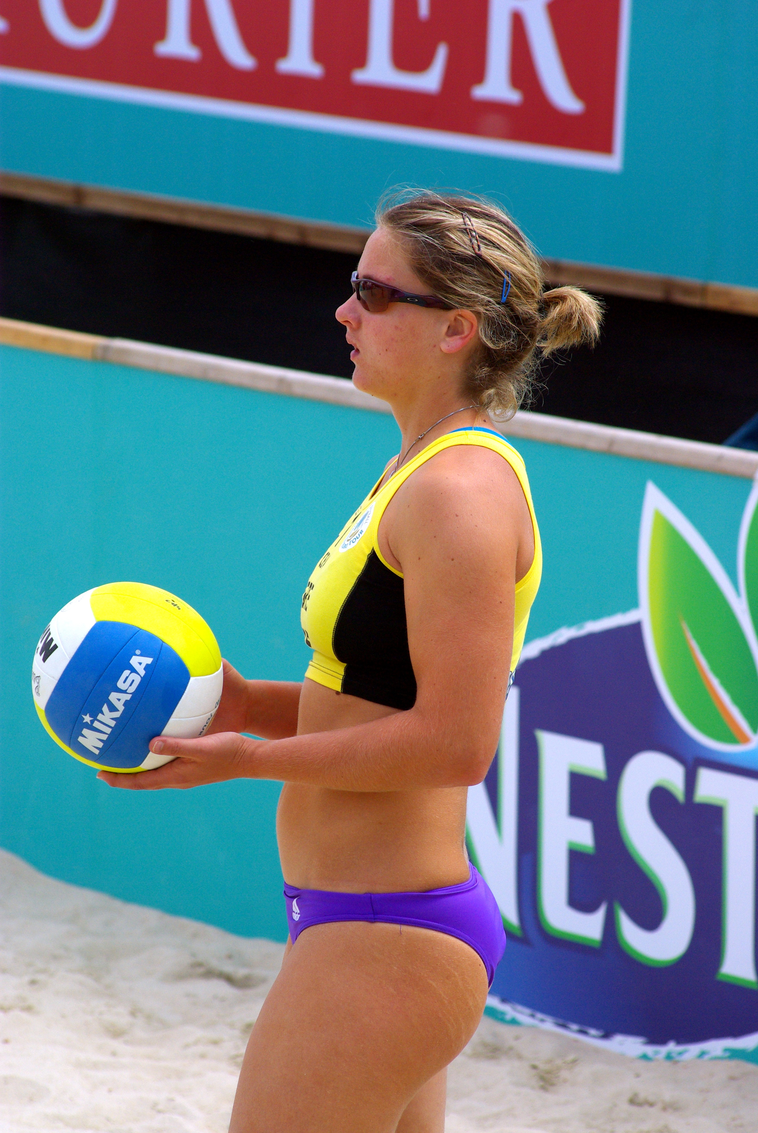 Greek Beach volleyball player Efthalia Koutroumanidou at the European Championship Tour 2008 Austrian Masters in St. Pölten.